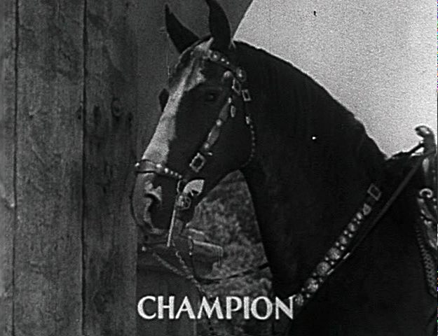 Snapshot from Oh, Susanna! (1936)